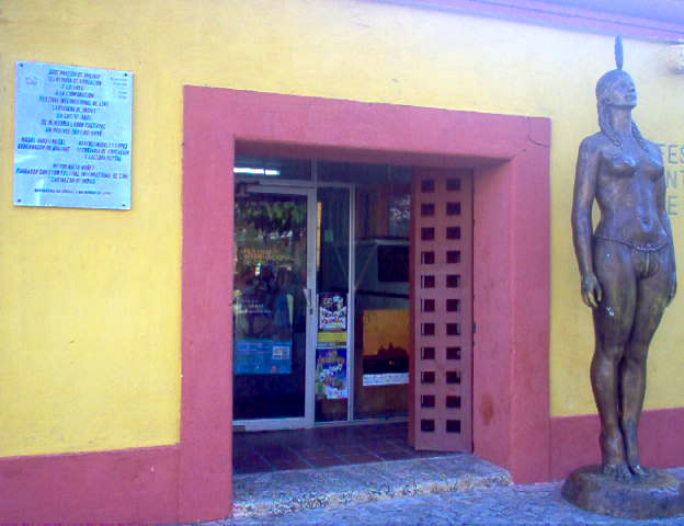 Cartagena Film Festival office